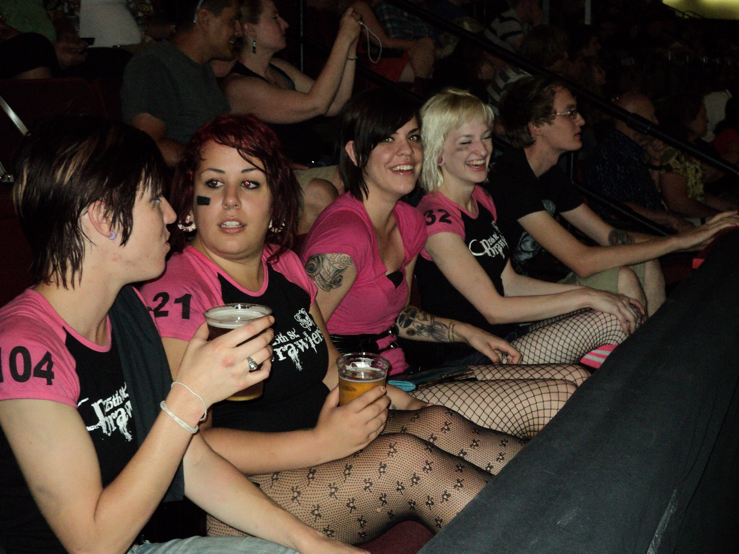 Members of Ogden, Utah's away team kicks back and has a few beers after a victorious roller derby bout at the 2010 Spudtown Knockdown in Boise, Idaho.